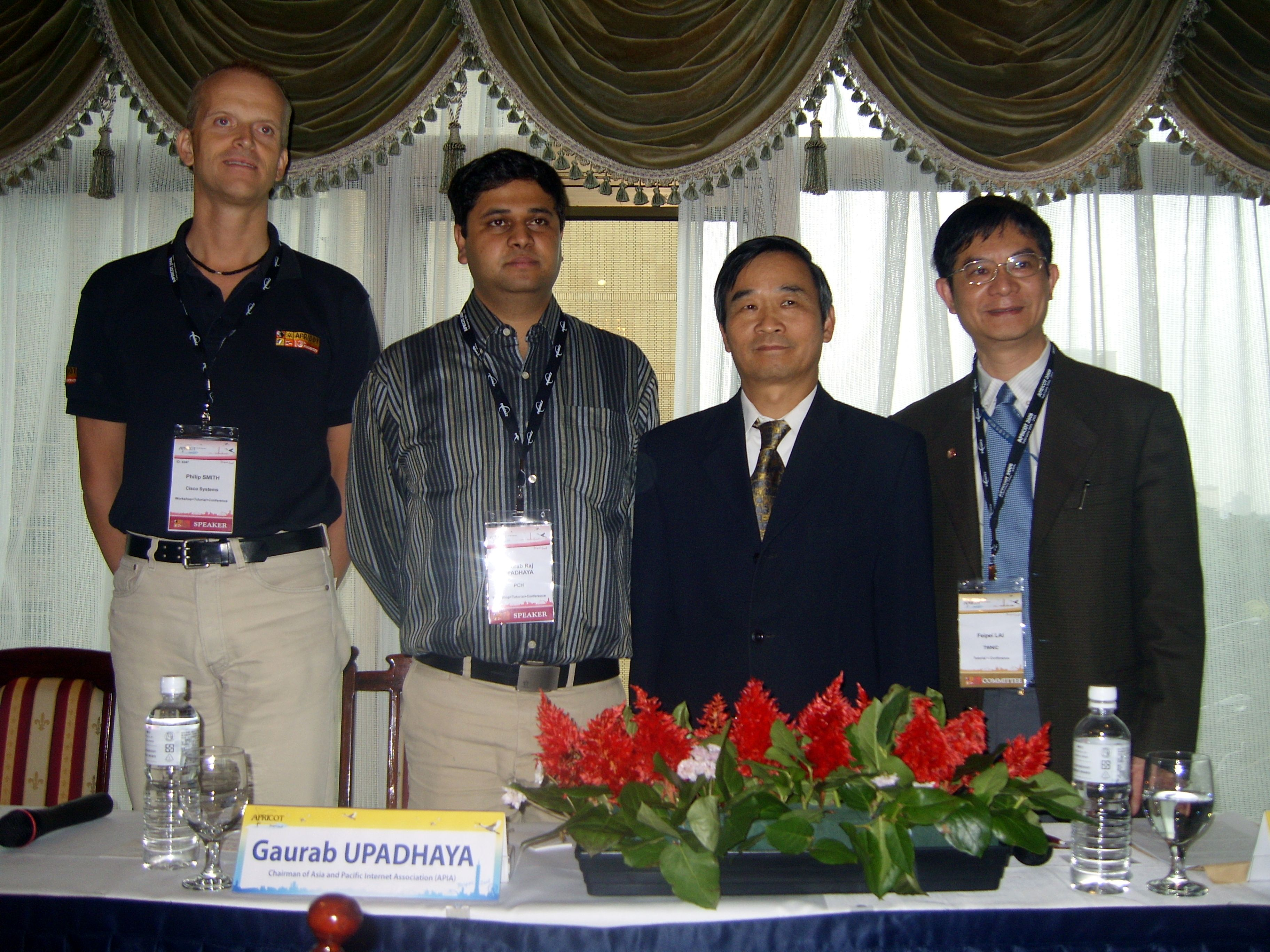 Executives at 2008 APRICOT Press Conference.